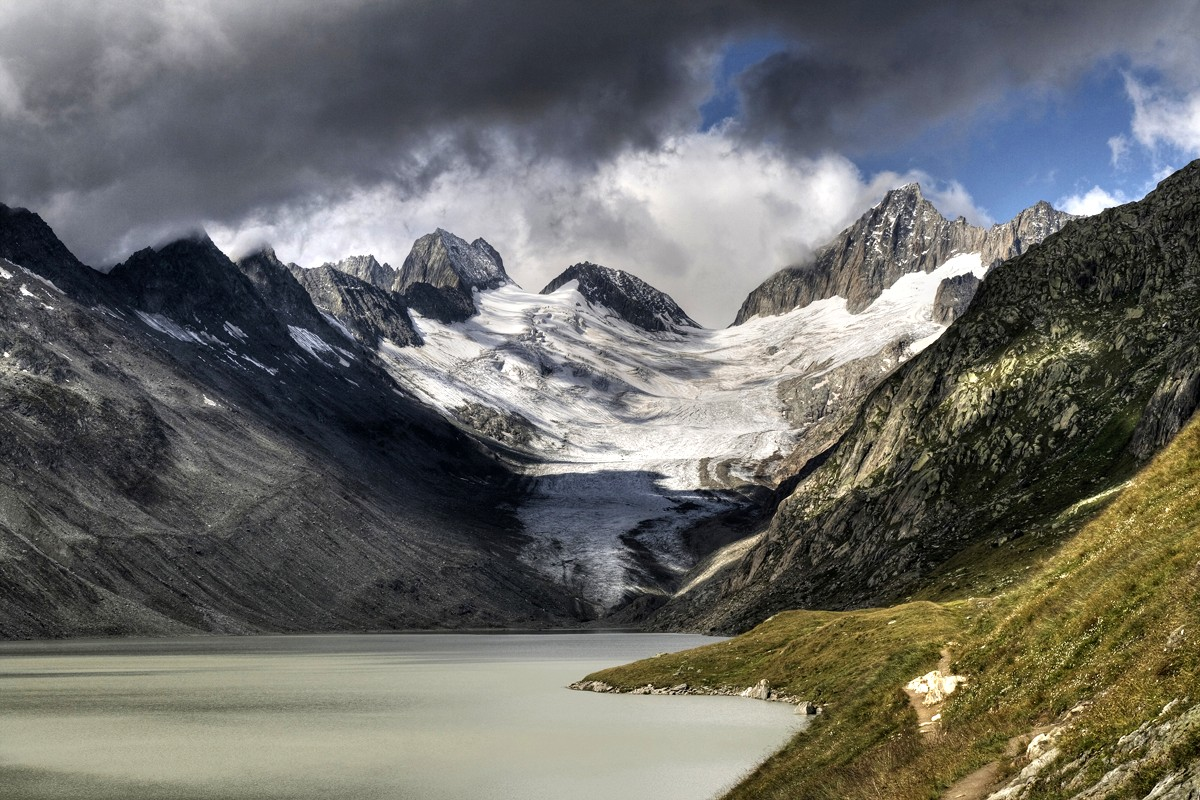 Oberaarsee near Grimselpass